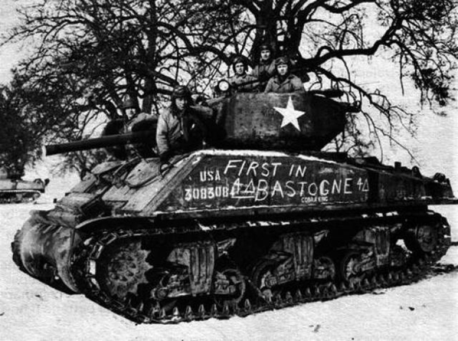 Black and white battlefield photo of Cobra King, a Sherman tank which was the first tank into Bastogne. Crew is outside the tank.